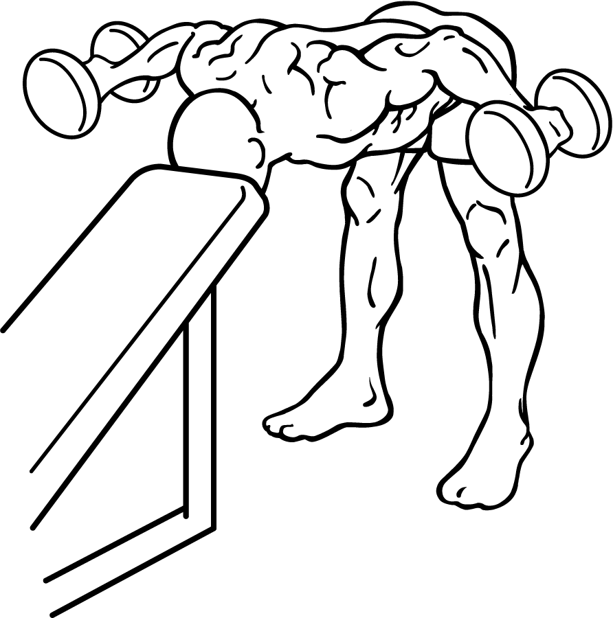 an exercise of shoulders